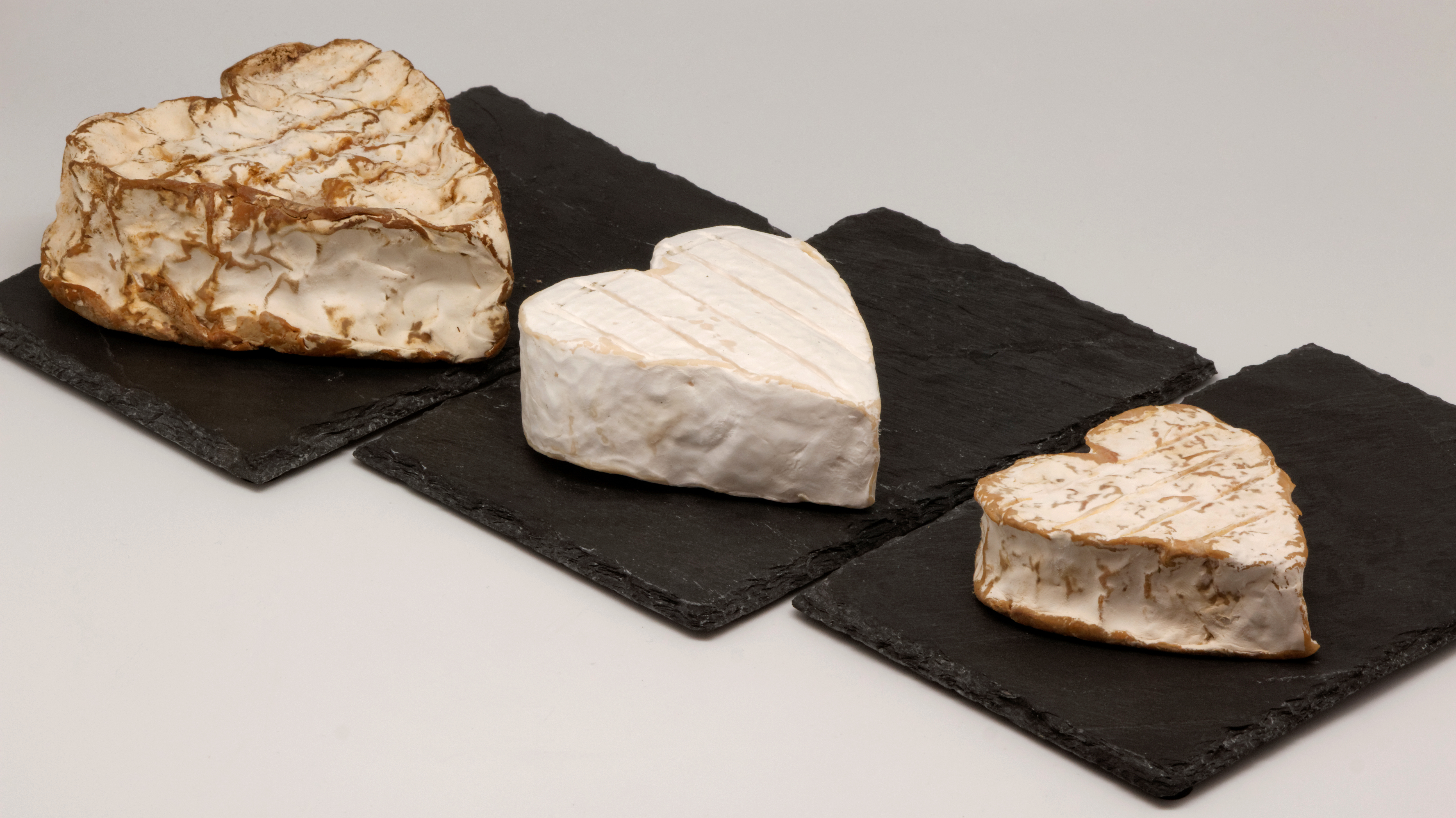 Cœur de Neufchâtel